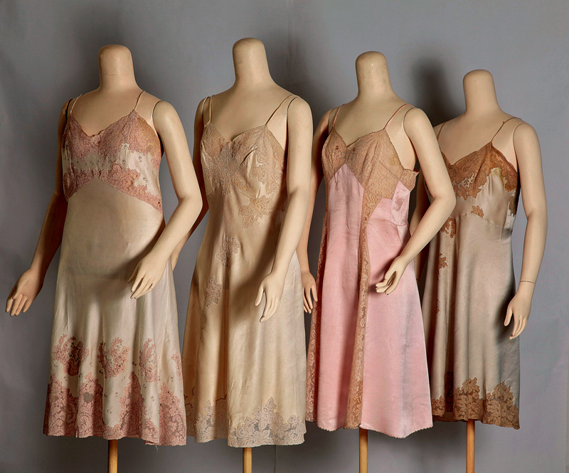 Four full slips, silk with lace insertion. 1930s.